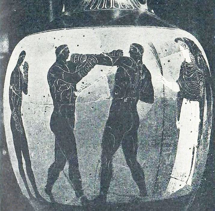 A scene of youths boxing on a Panathenaic amphora from Ancient Greece, circa 336 B.C, Archonship of Pythodelus. The figure on the right, instead of the usual judge, is the goddess Victory (a.k.a. Nike). The original image which was scanned (and slightly brightened by me using software) can be located in: Gardiner, E. Norman (1864-1930), Greek Athletic Sports and Festivals, London: MacMillan, 1910, p. 407, Fig. 135